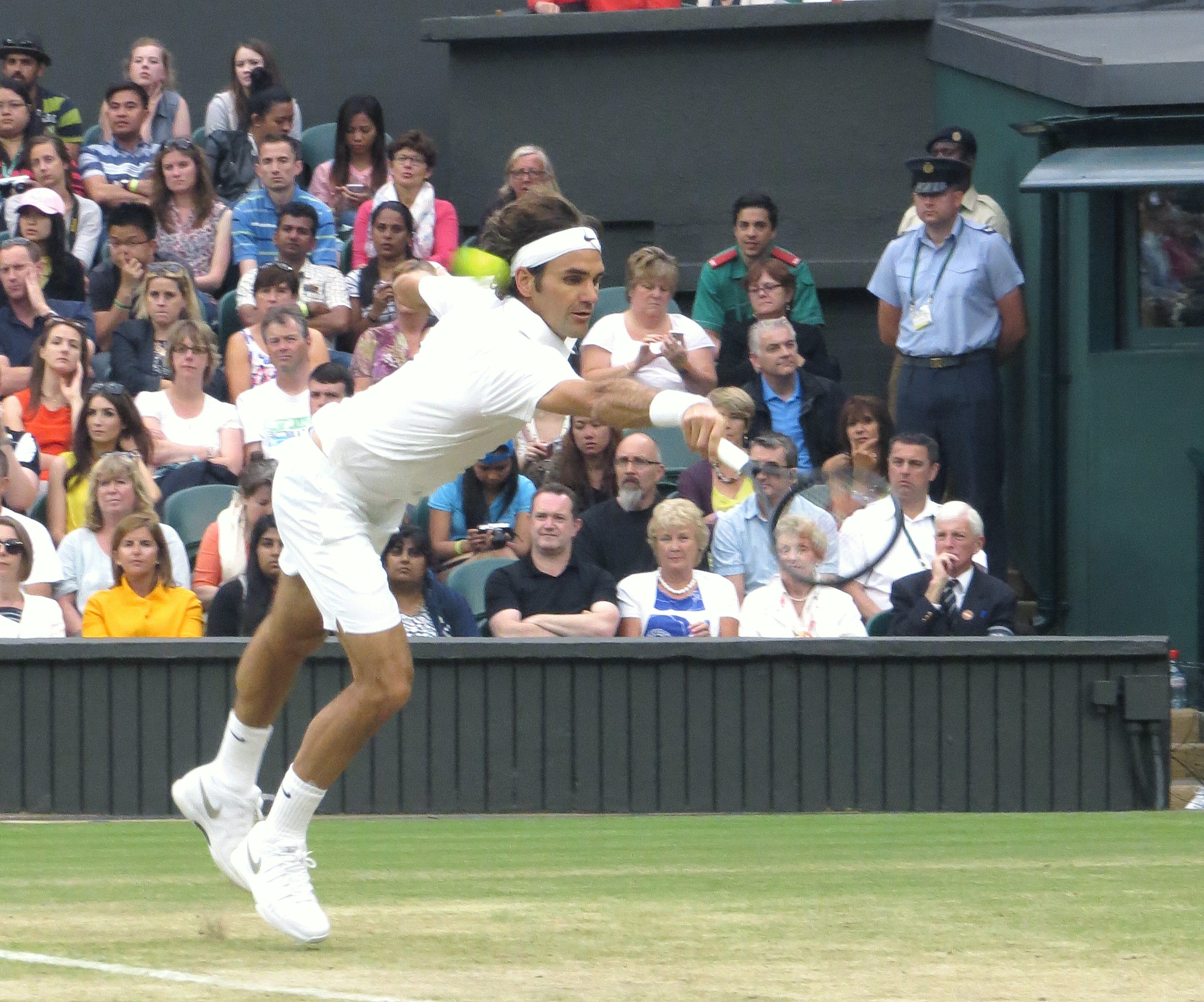 Roger Federer at Wimbledon 2014